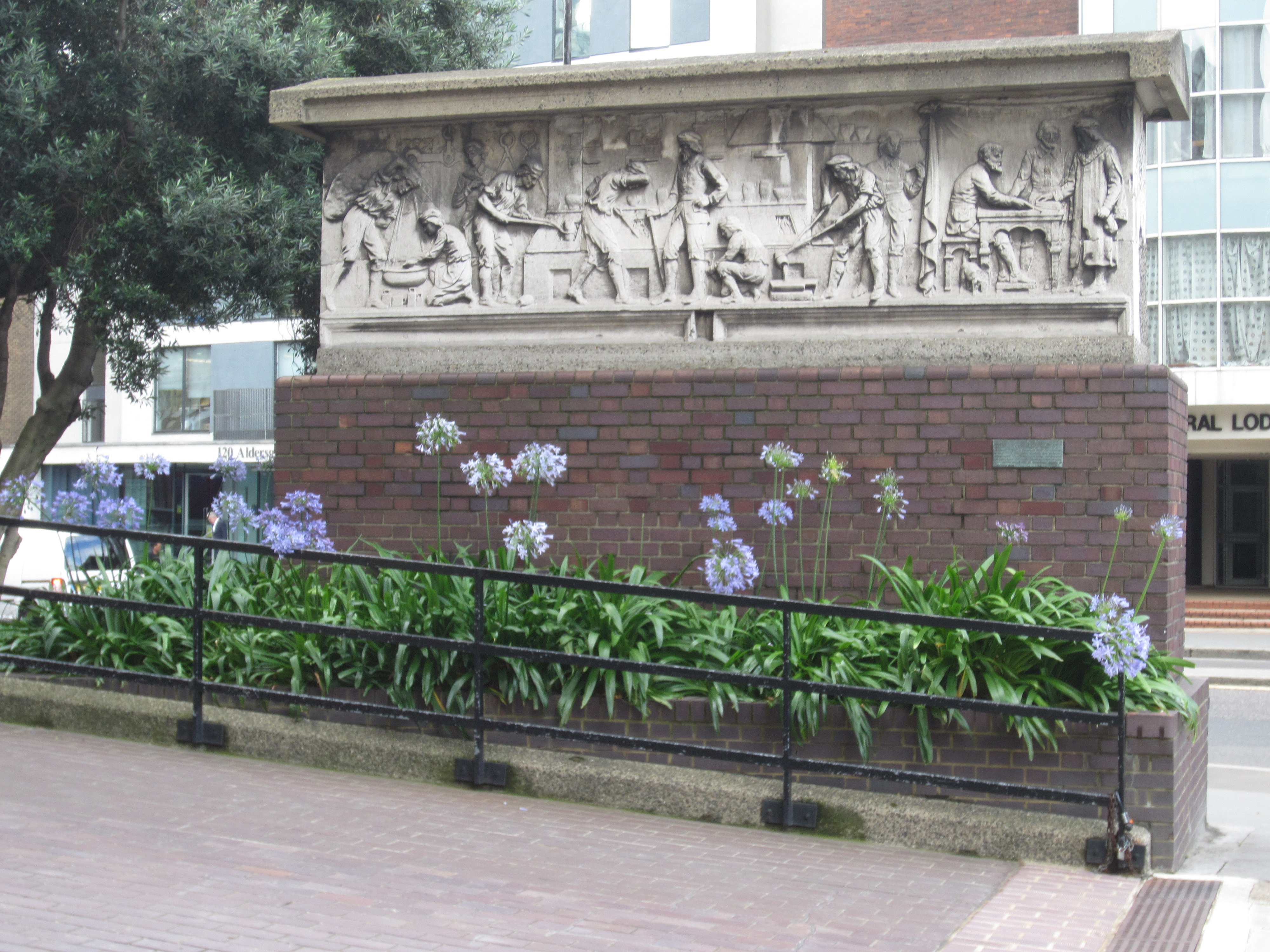 London, United Kingdom (August 2014)